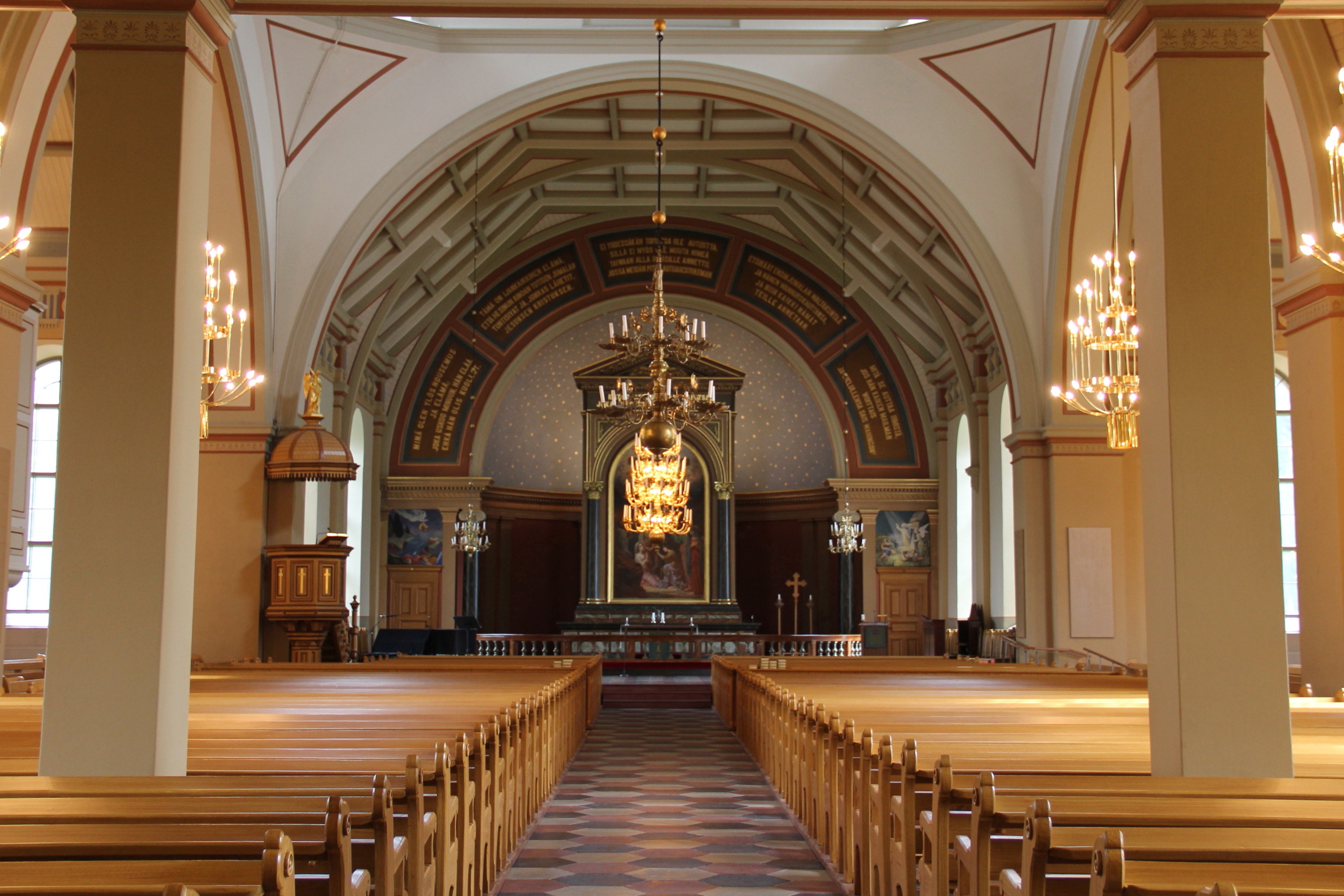 Interior of Kanta-Loimaa church. - View from main entrance towards altar (eastern aisle).